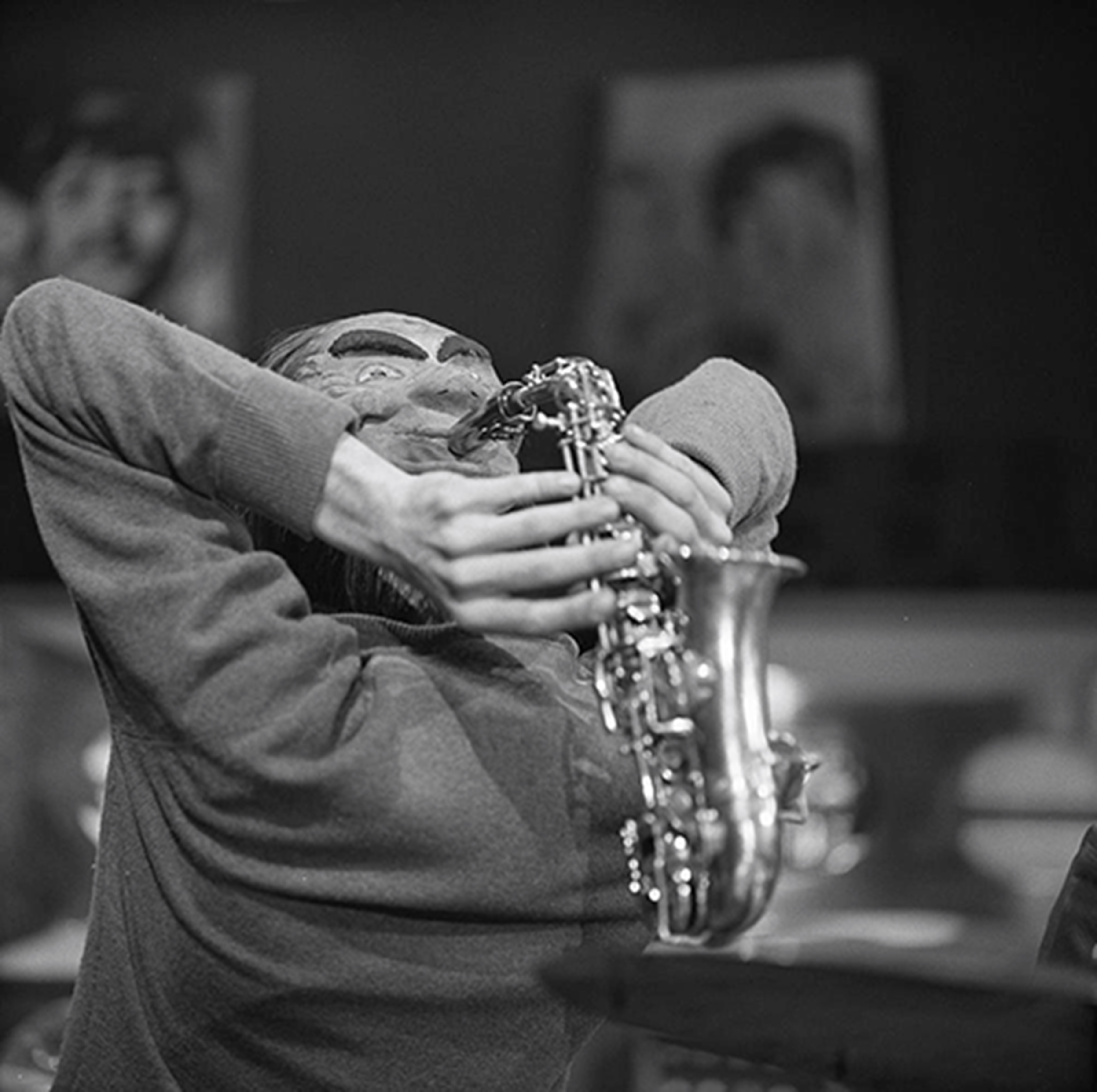 Bonzo Dog Doo-Dah Band in Fenklup (Dutch TV), 7 June 1968. Probably Roger Ruskin Spear or Rodney ("Rhino") Slater?